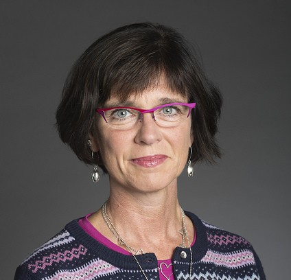 Photo Rights: Centre Party of Sweden